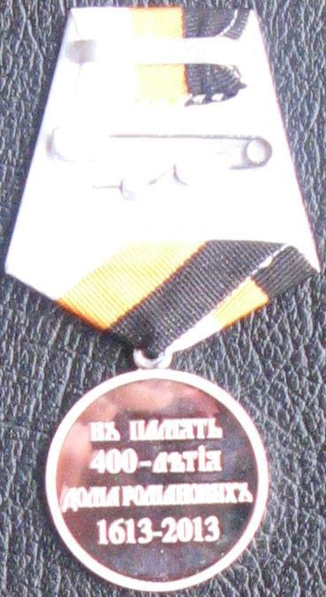 Reverse of the 400th Anniversary Medal of the House of Romanov week instituted in 2013.